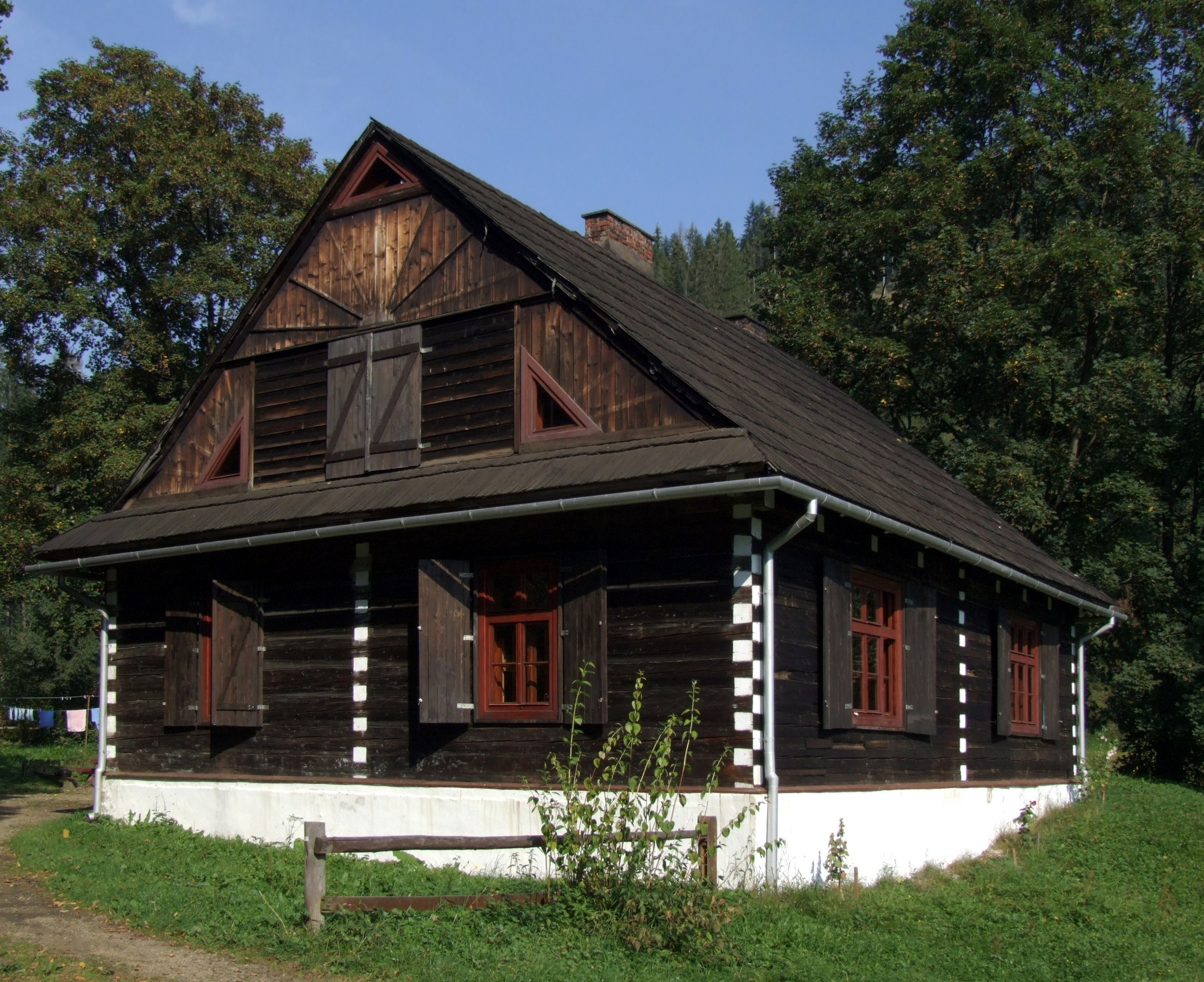 Chałupa Chemików students hostel in Żywiec Beskids